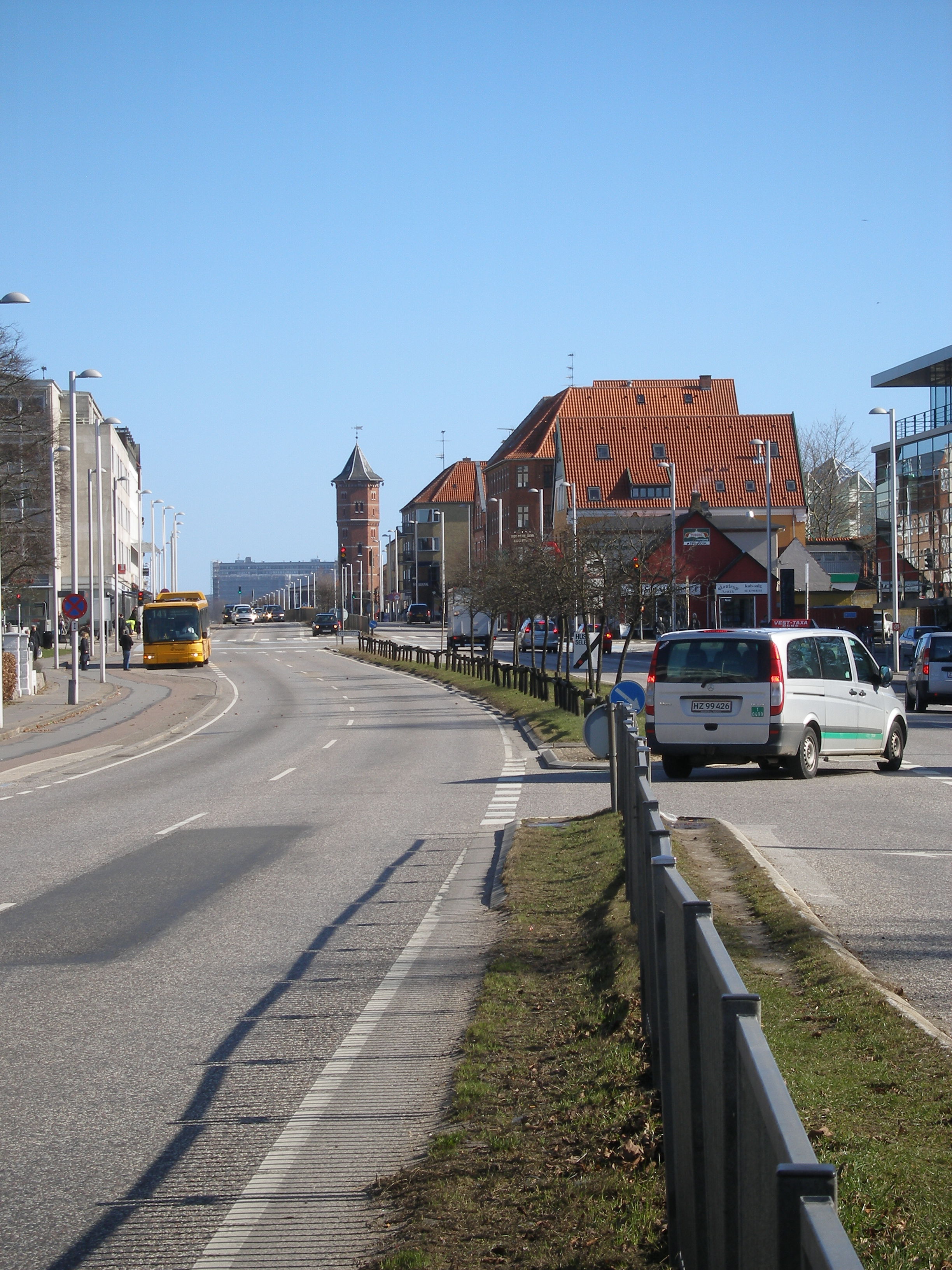 Hovedvejen (major road no 156) in Glostrup, Denmark